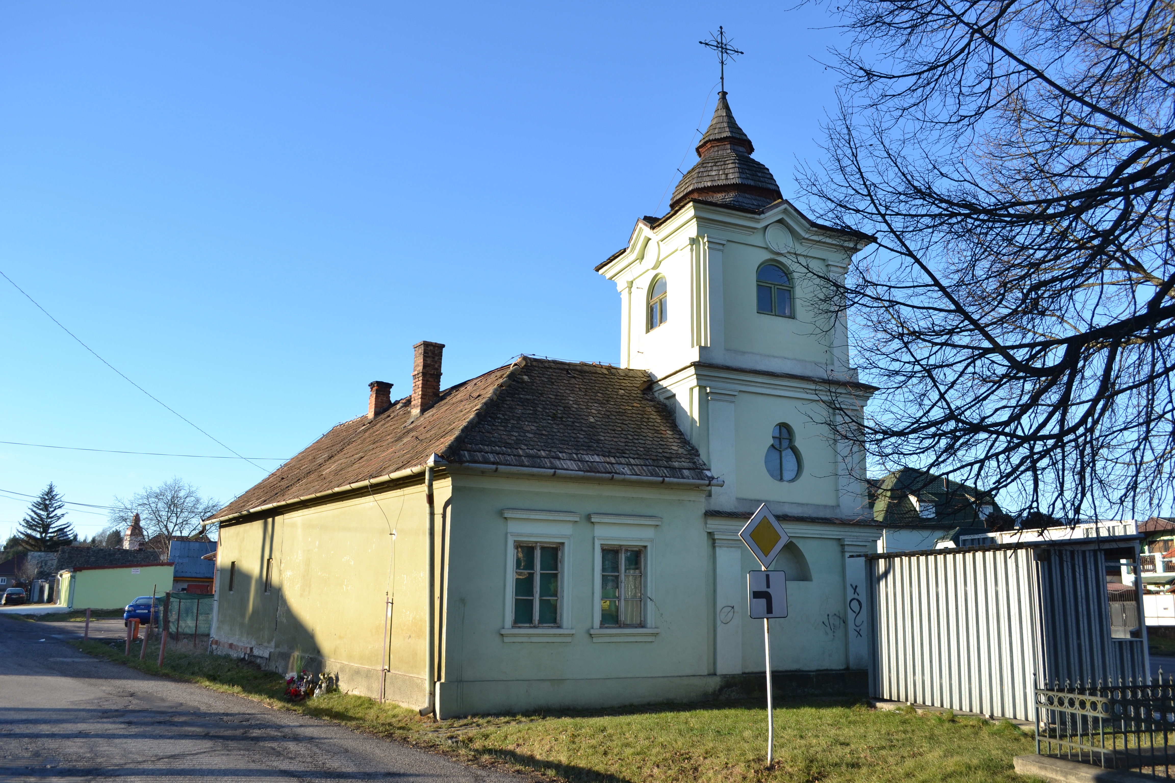 The belfry of Tomašová (part of town Rimavská Sobota), Tomašovská streetSlovenčina: Zvonica v Rimavskej Sobote (časť Tomašová), Tomašovská ulica.